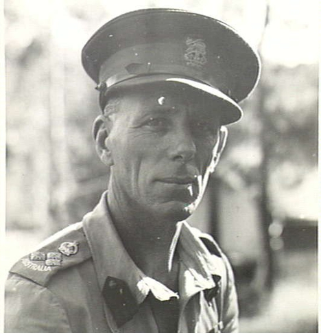 Wondecla, Queensland, Australia. 1944-03-06. NX105 Brigadier J. Reddish, DSO., ED., Commander Royal Artillery, 6th Division.